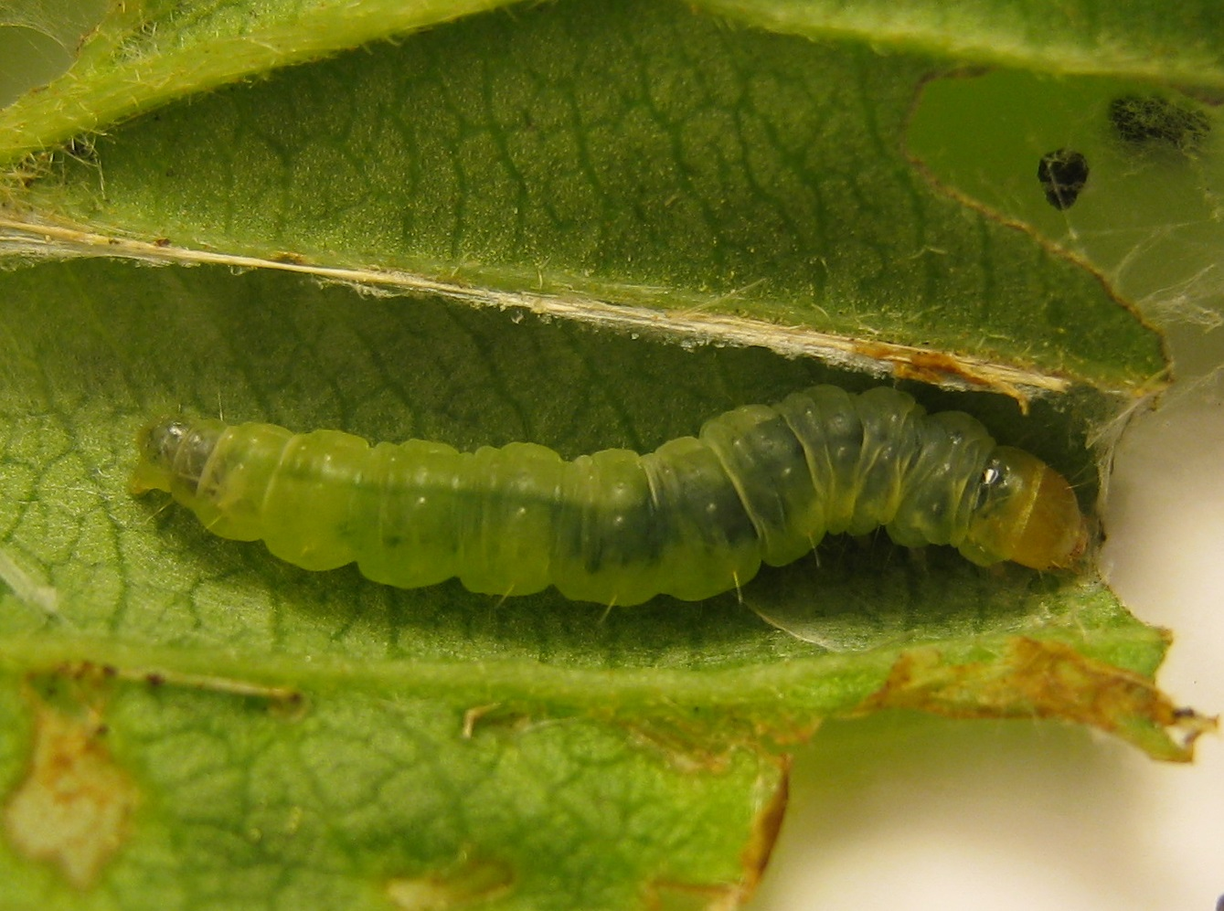 Leaf roller caterpillar (tortricid moth) Acleris schalleriana (Schaller's Acleris Moth - Hodges#3527) on arrowwood. Size: 11 mm. Pennypack Restoration Trust, Montgomery County, Pennsylvania, USA.